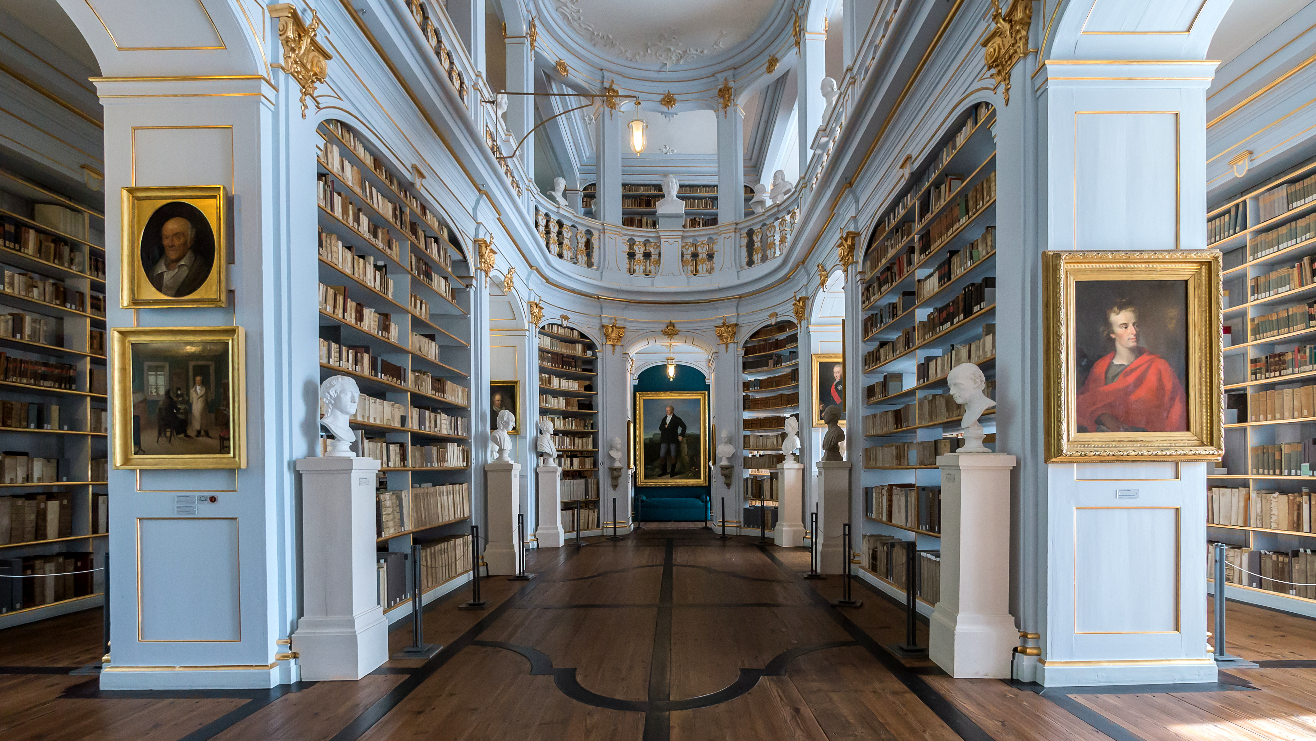 Duchess Anna Amalia Library „Rococo Hall”, Place of democracy 1, Weimar